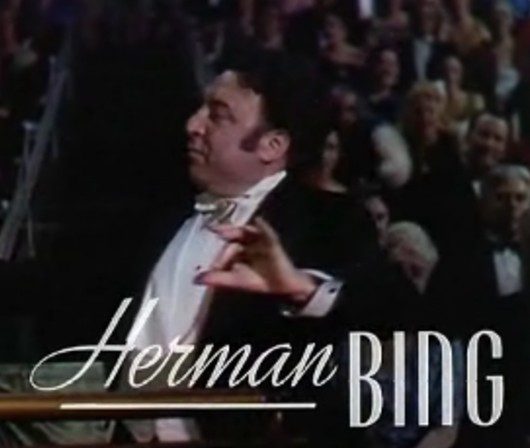 Cropped screenshot of Herman Bing from the trailer for the film Sweethearts